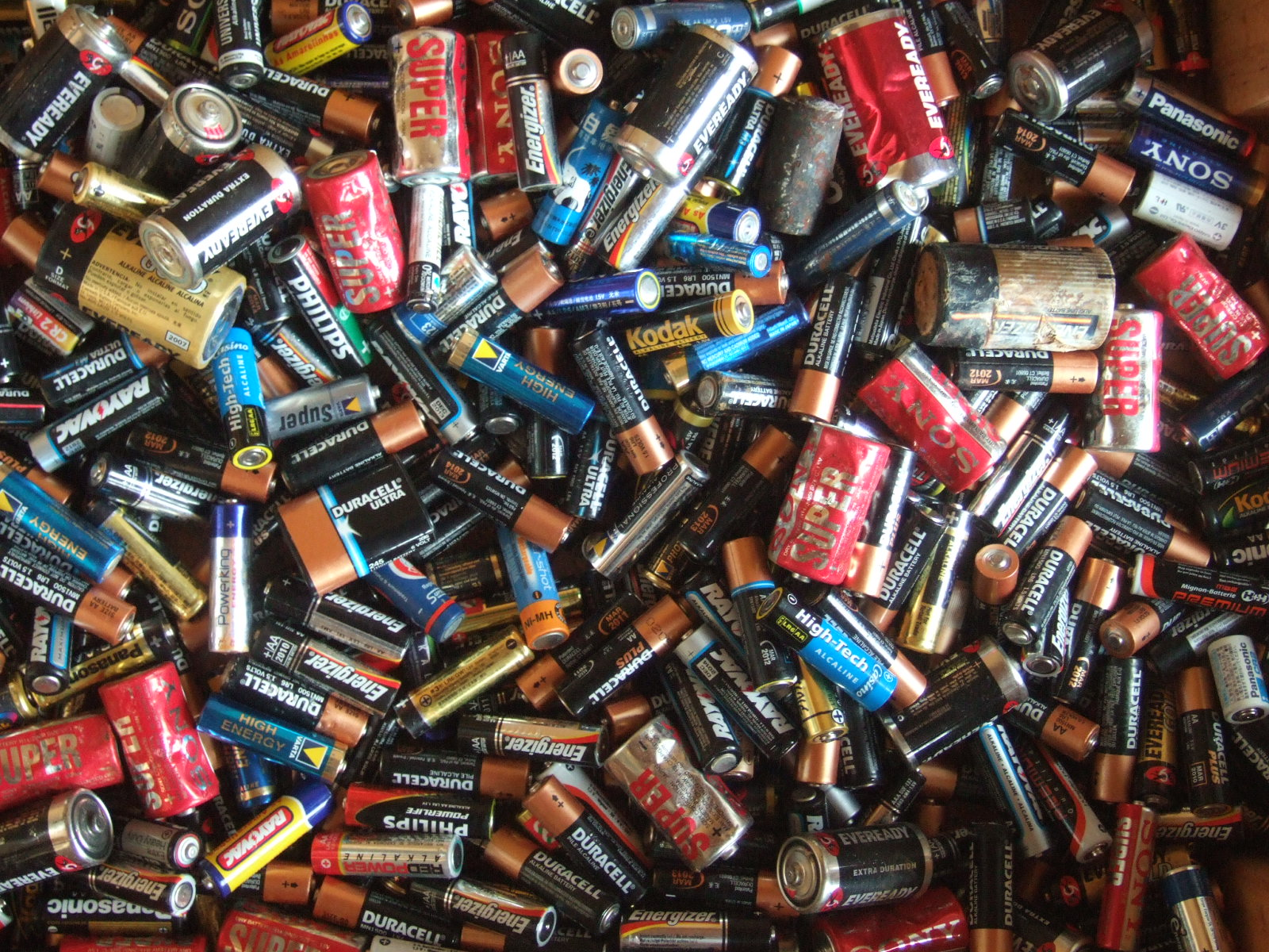 Electric batteries.